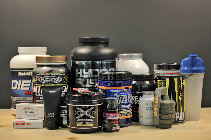 A variety of sports nutrition supplements and one plastic shaker.